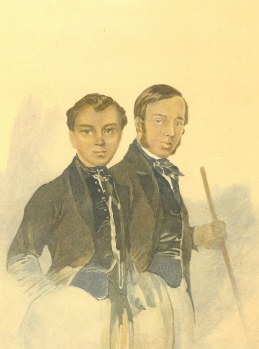 Portrait of Fyodor and Aleksandr Lazarevsky by Taras Shevchenko